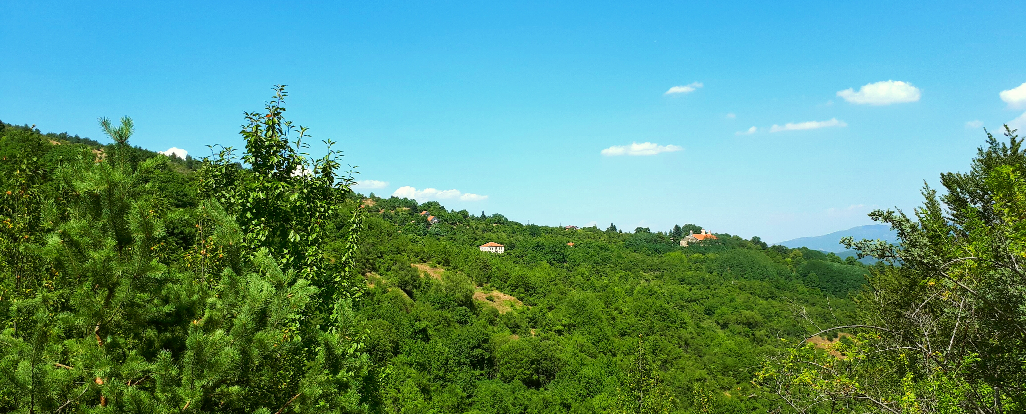 Part of the Veloexpedition in 2017